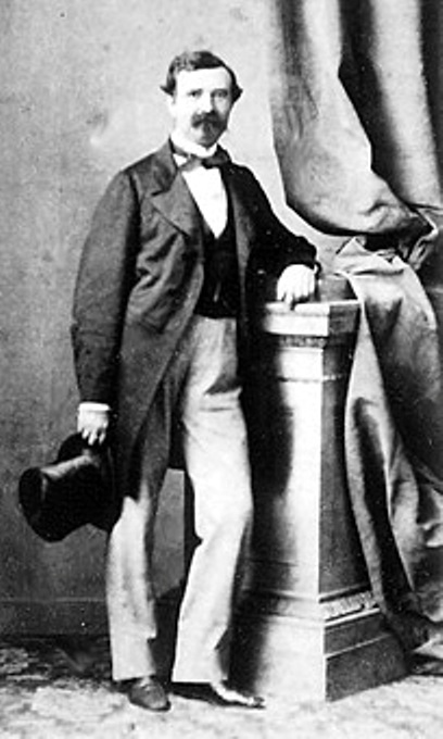 General Jean-Baptiste Auguste Verchere de Reffye (1821–1880), an artillerist, pionneer of breech-loading weapons in France